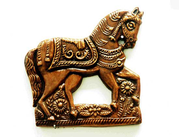 Old Czech extruded gingerbread in Městské muzeum Žamberk.